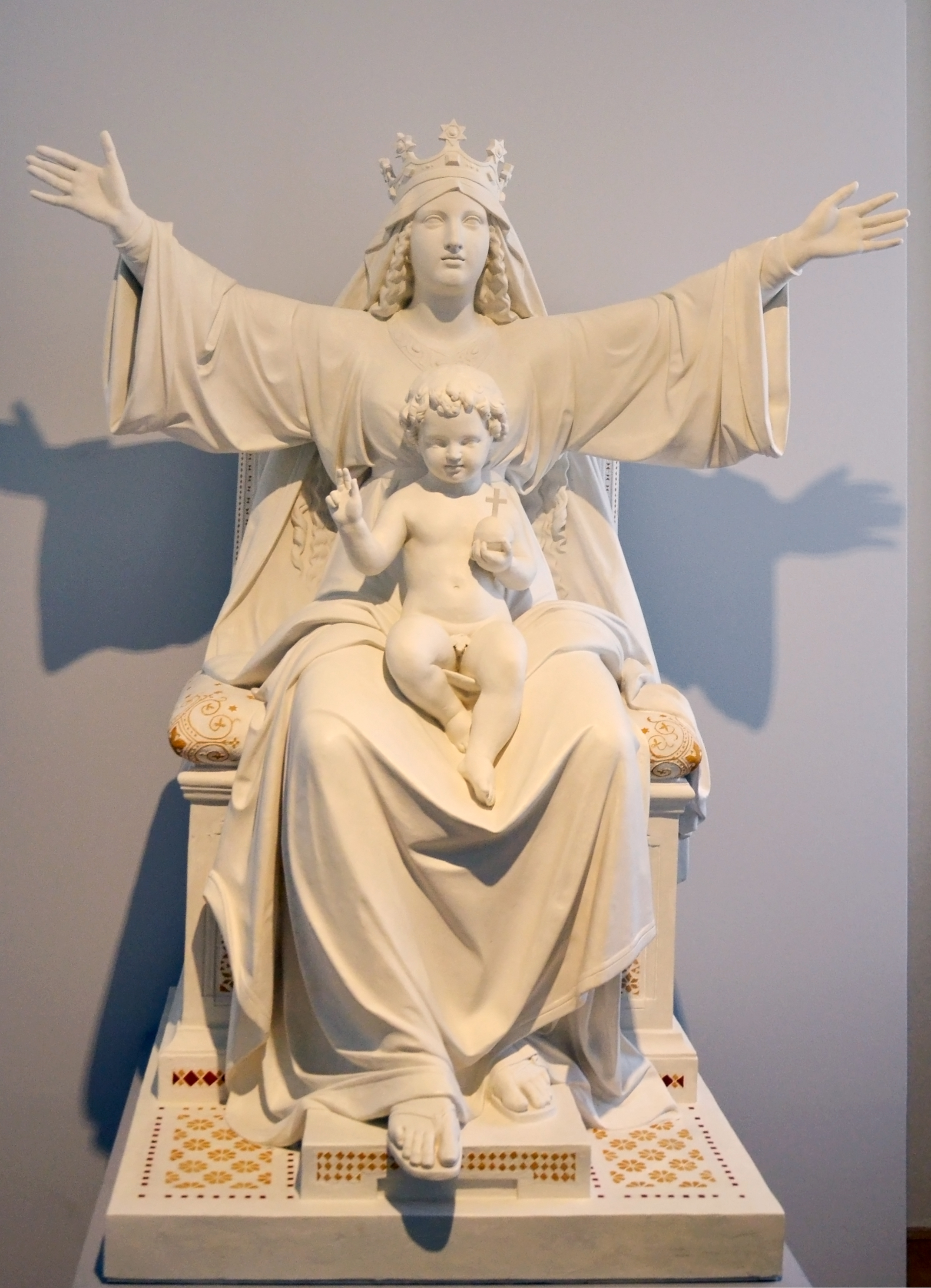 Václav Levý, Madona in Throno 1857 (copy)